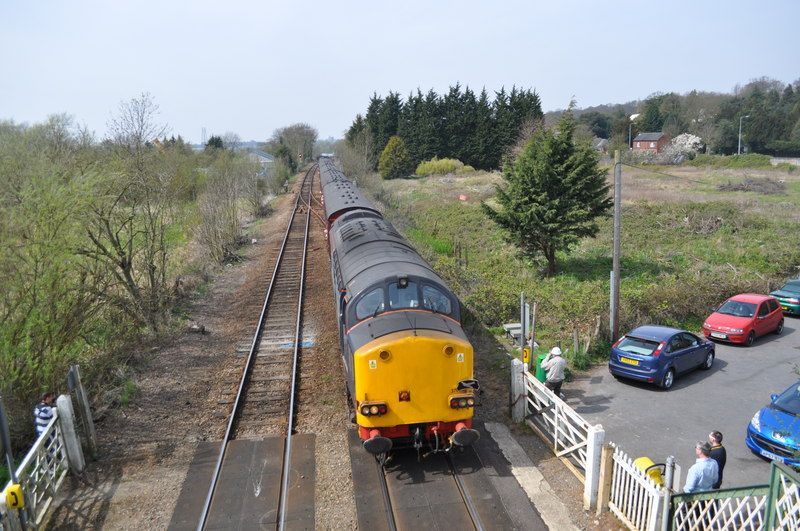 Train tour to Holt, near to Thorpe st Andrew, Norfolk, Great Britain. Top and tailed (by class 37 locomotives) take a special train from Norwich to Holt and over the new Sheringham level crossing Link . Seen here from Whitlingham footbridge (at the site of Whitlingham station). The tour earlier at Ketteringham Link